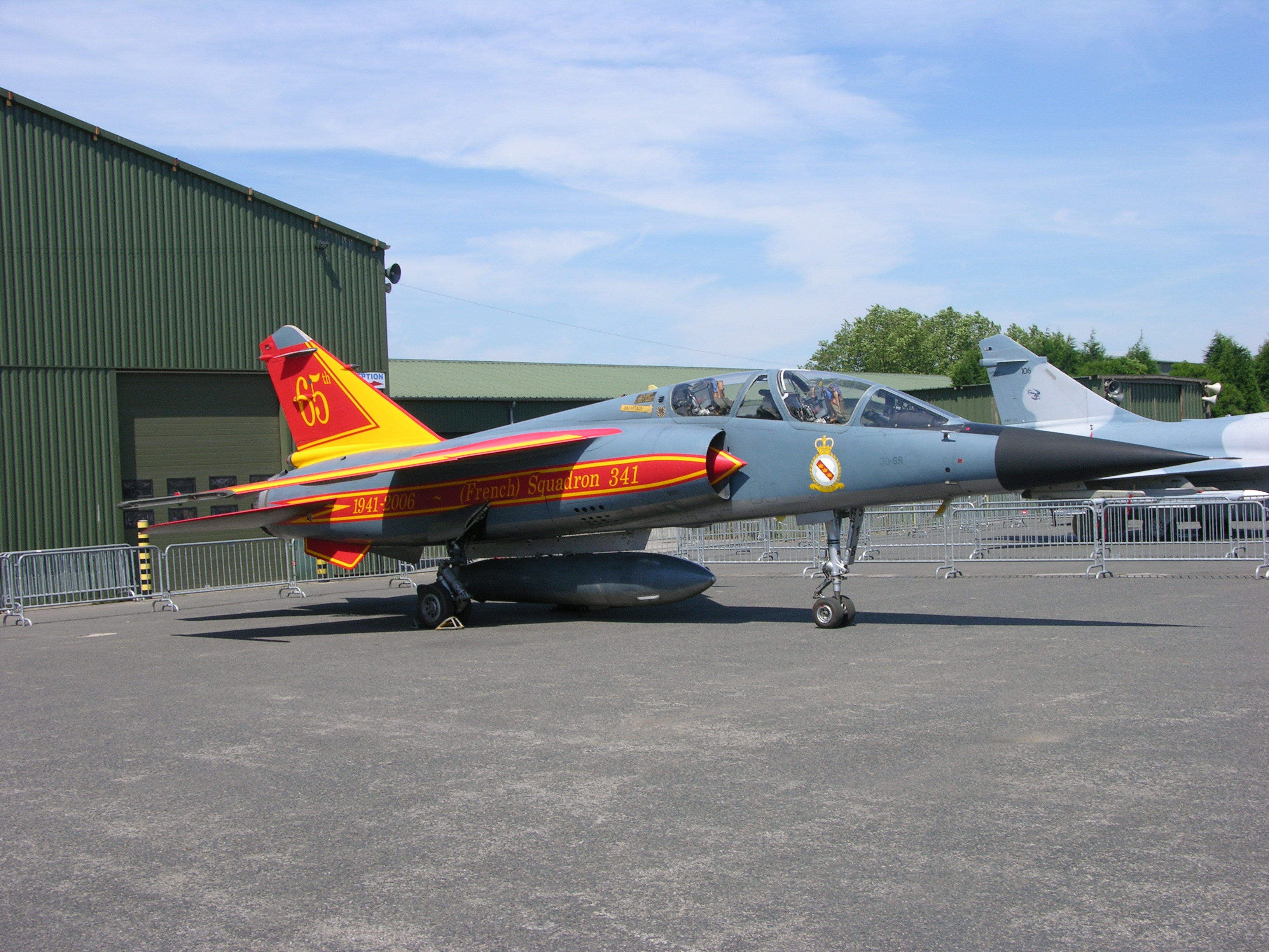 Just a pretty picture (well I think it's pretty) of a French Air Force Mirage F.1B belonging to EC.01.030 'ALSACE' from BA132 Colmar-Meyenheim taken at the Cambrai air show in June 2006